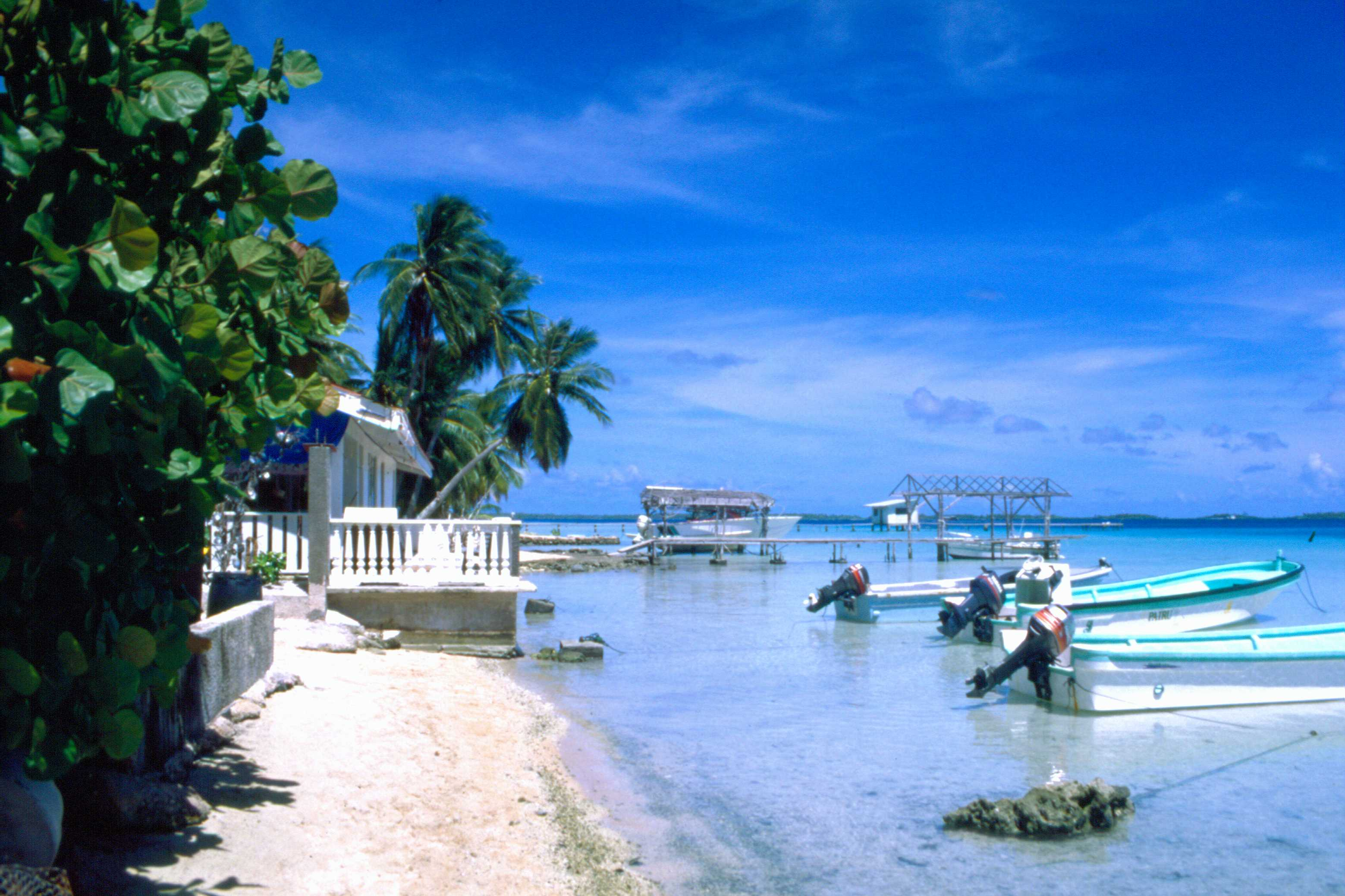 Lagoon of Ahe Atoll, Tuamotu Archipelago, French Polynesia